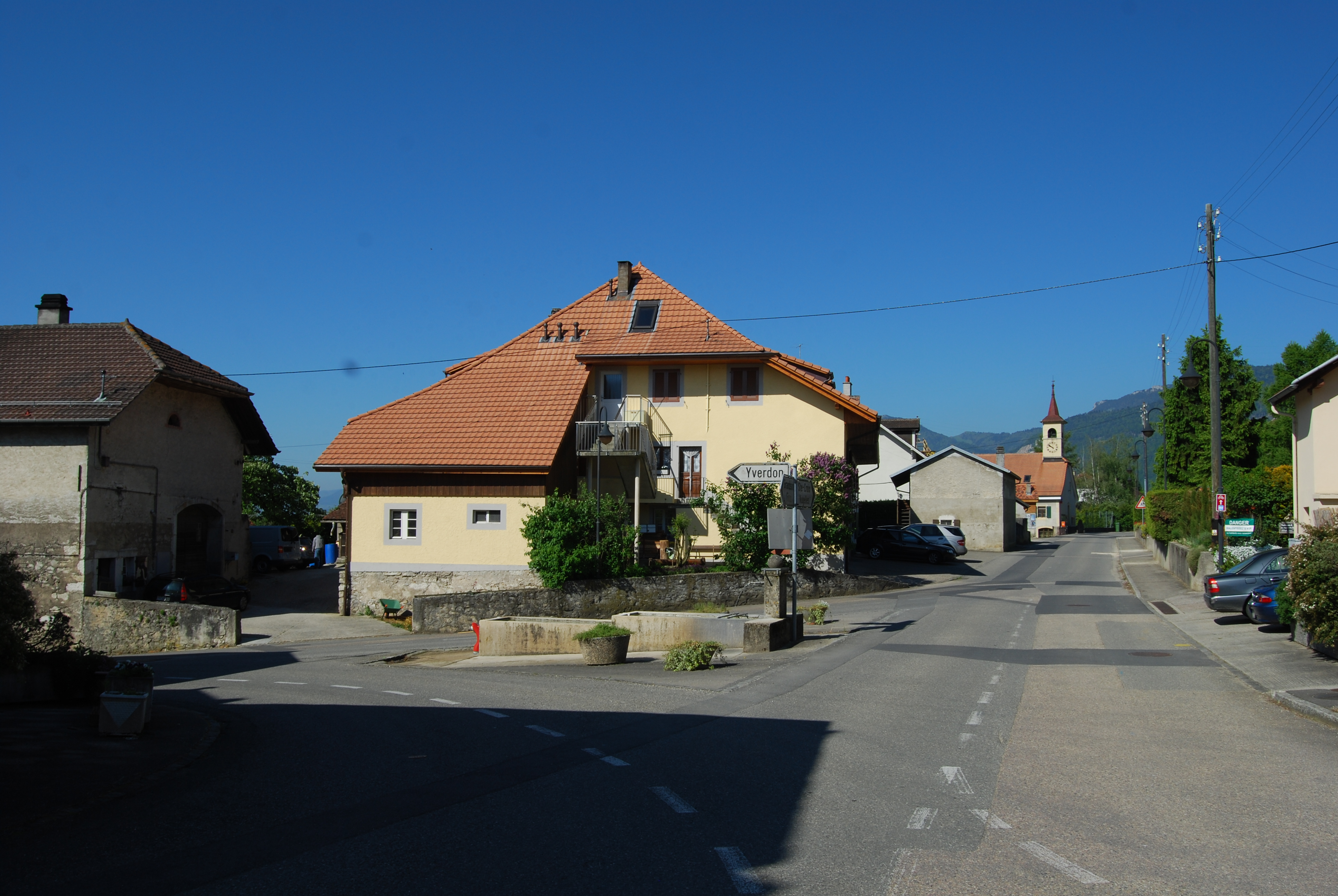 Orges, canton of Vaud, SwitzerlandEsperanto: Orges, Kantono Vaŭdo, Svislando